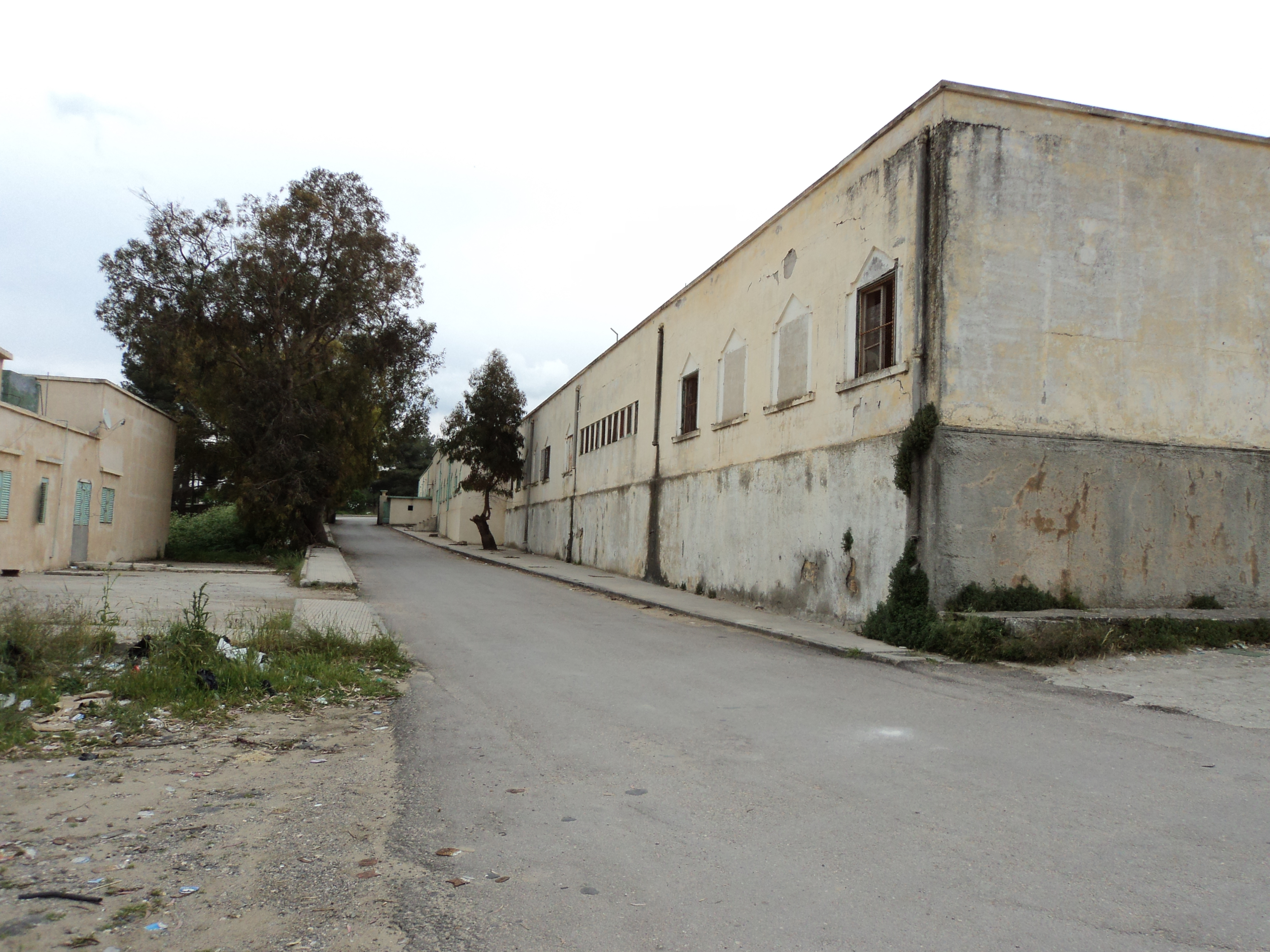 Zawiyat al Bayda Senussi - Zawiyat El Kadima region Zawiyat Old - Bayda, Libya .